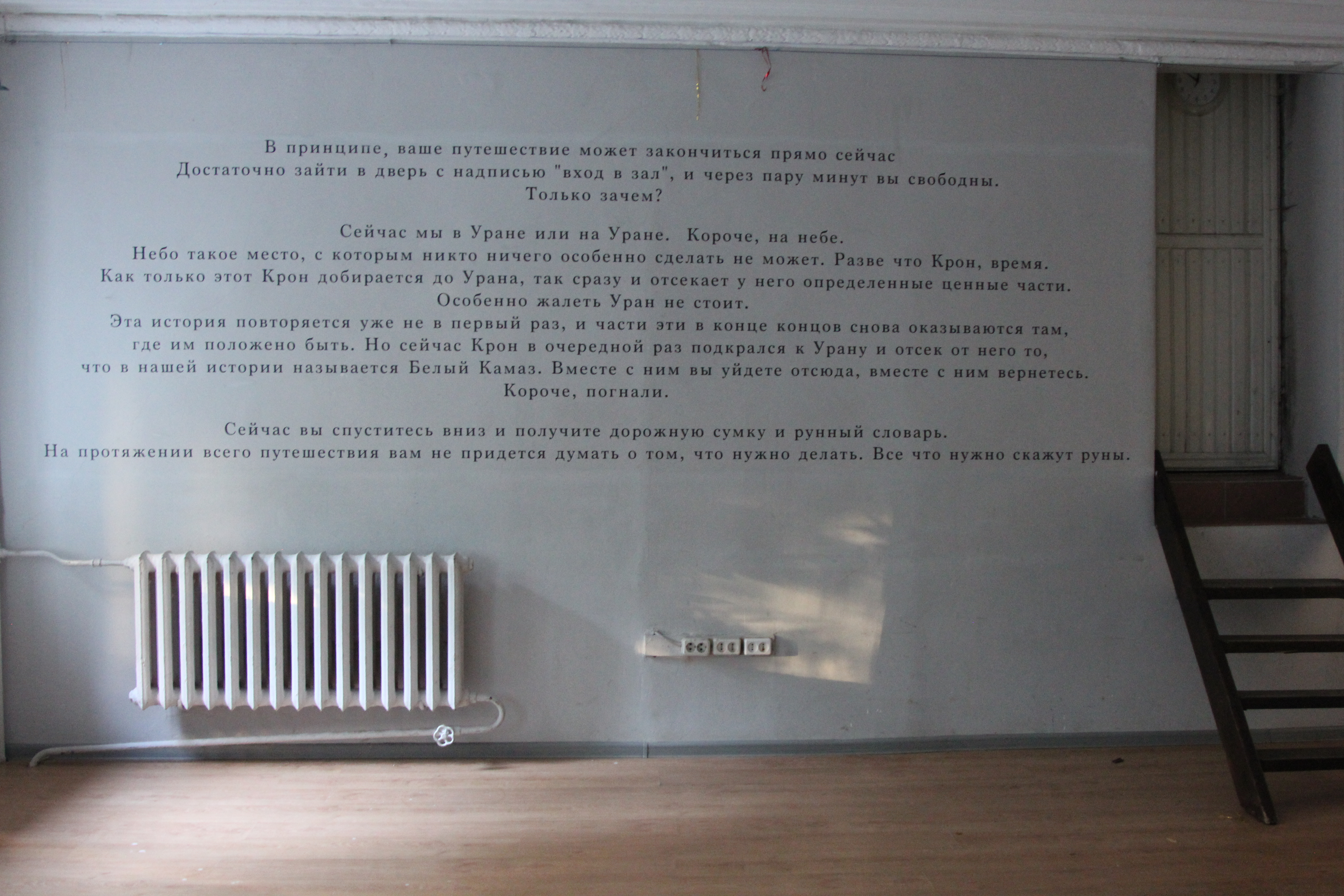 "Towards White KAMAZ" performance by Seva Lisovskiy, Vera Popova, Alya Lovuannikova and Alexey Lobanov